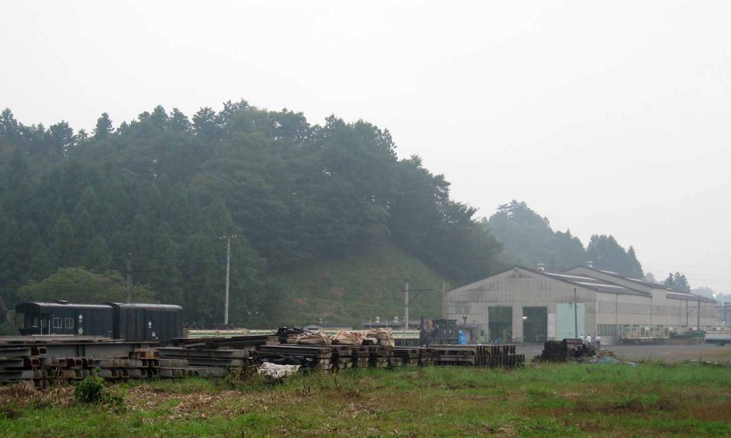 Seibu Railway Yokoze Rolling Stock Depot. 3742-2 Yokoze, Yokoze, Saitama, Japan.